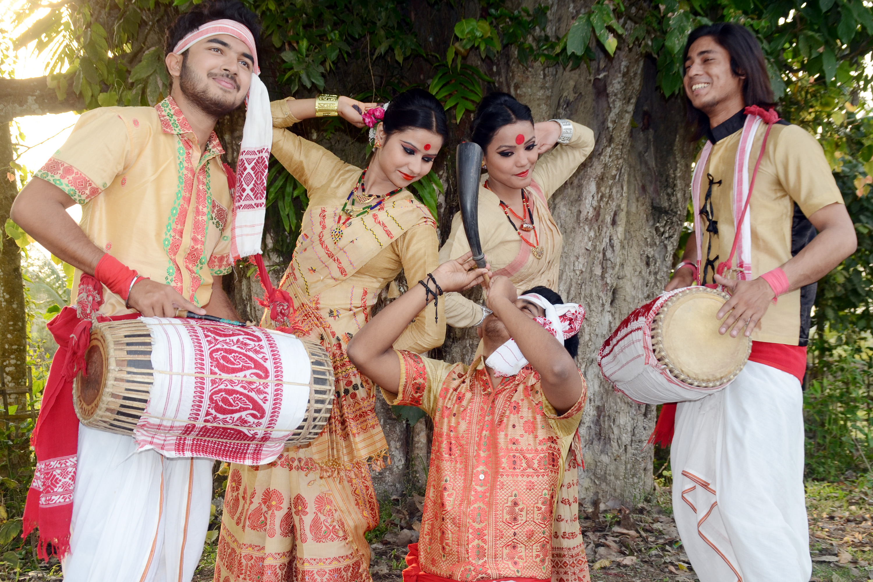 Youths perform Bihu dance in Assam